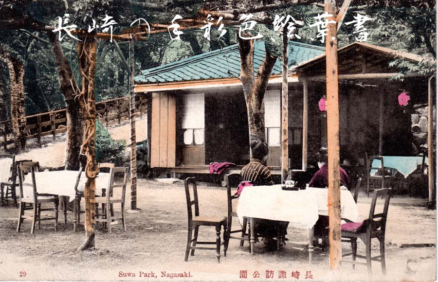 Japanese postcard showing Suwa Park in Nagasaki